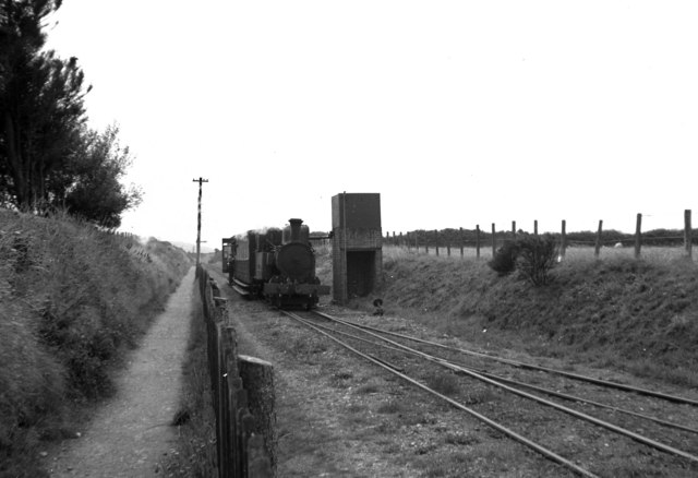 Locomotive taking water, Kirk Michael station, Isle of Man: The Manx Northern Railway line though Kirk Michael closed many years ago along with the Peel line. © Copyright Dr Neil Clifton and licensed for reuse under this Creative Commons Licence.